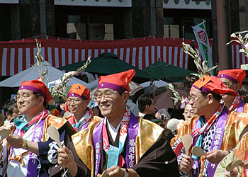 Hakata Matsubayashi festival. Torimon (passersby).